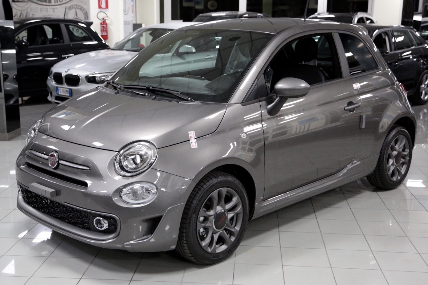 2018 Fiat 500S facelift 0.9 Turbo TwinAir